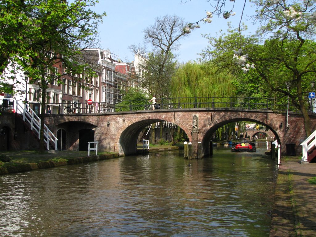 Oudegracht Utrecht